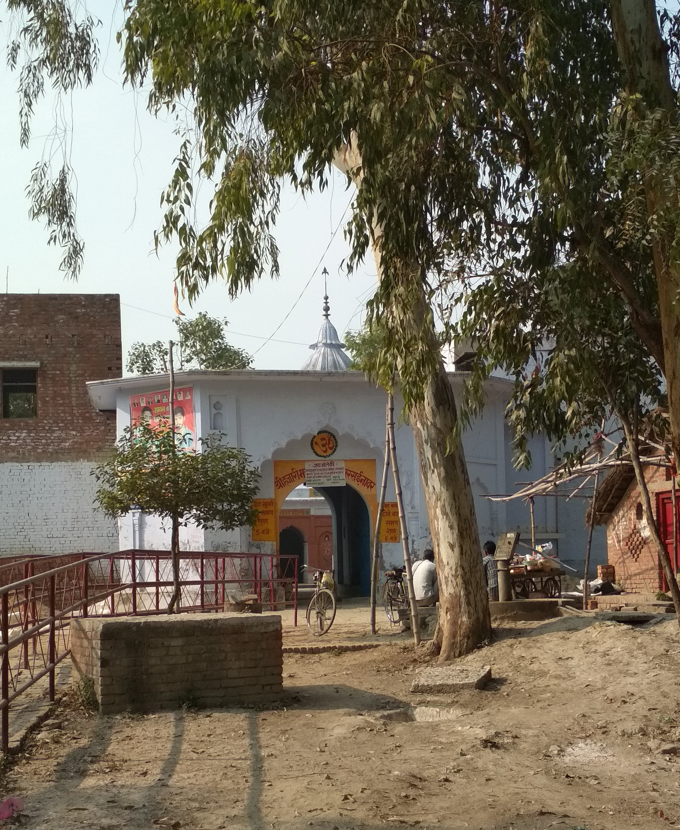 Rathore Park Sarsai Nawar City Etawah Uttar Pradesh India